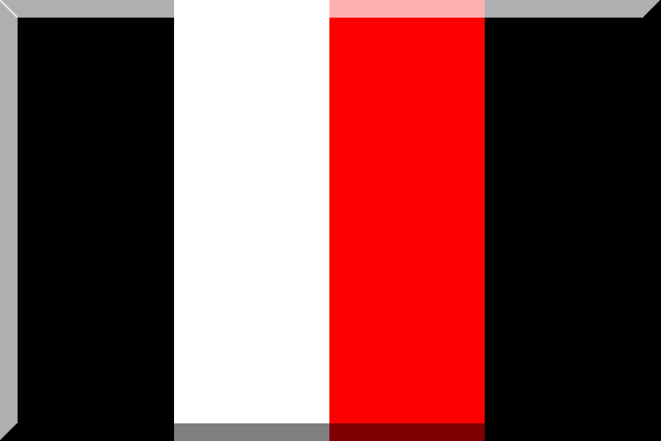 Black rectangle with white & red vertical stripe